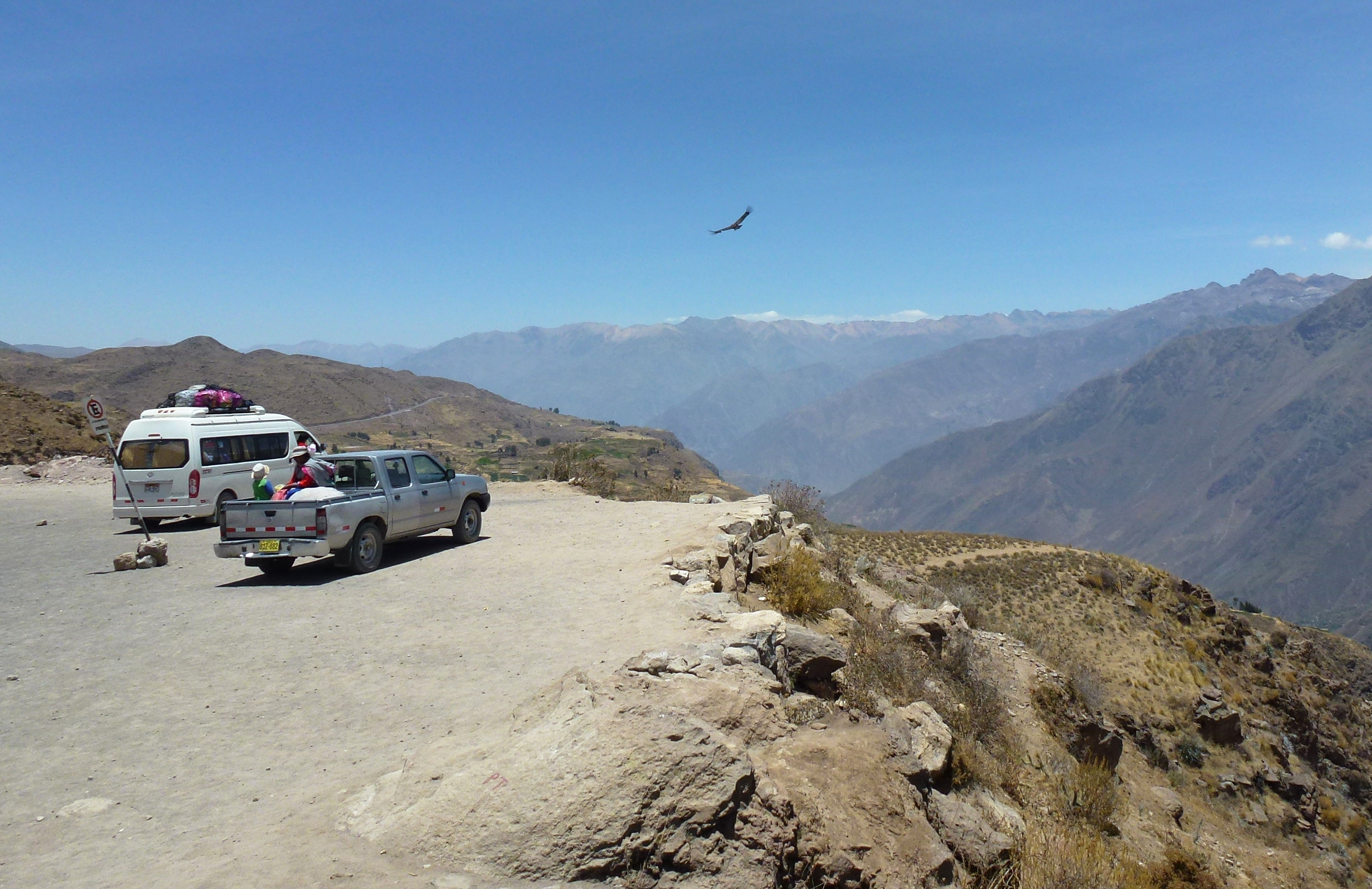 Cruz del Condor natural viewpoint Colca Canyon, Arequipa, Pérou